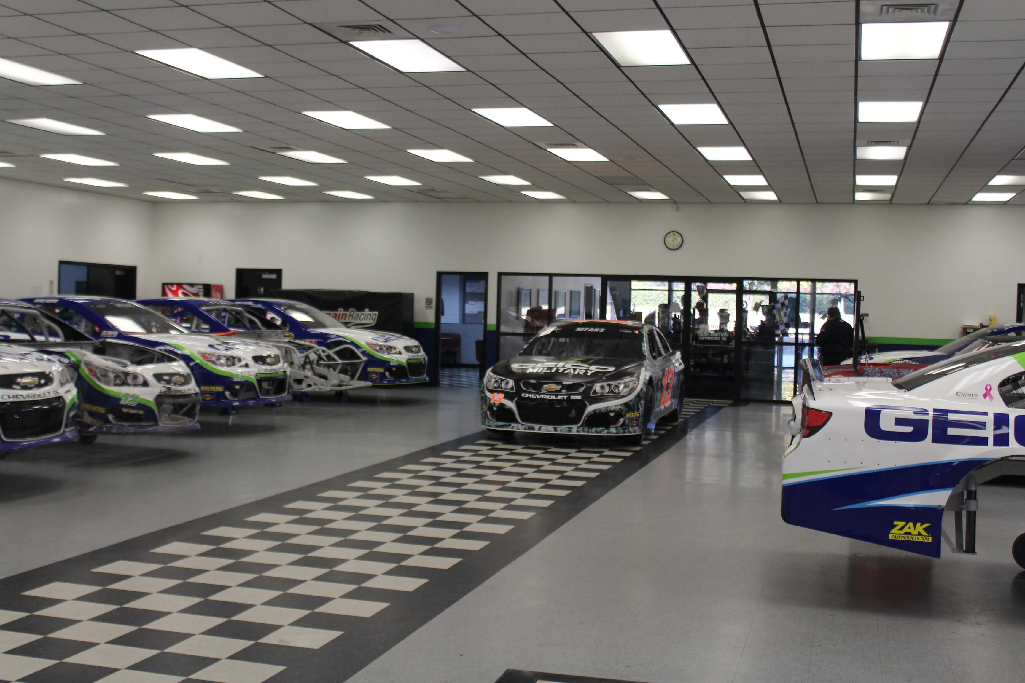 (Joseph Tregembo-Photographer)